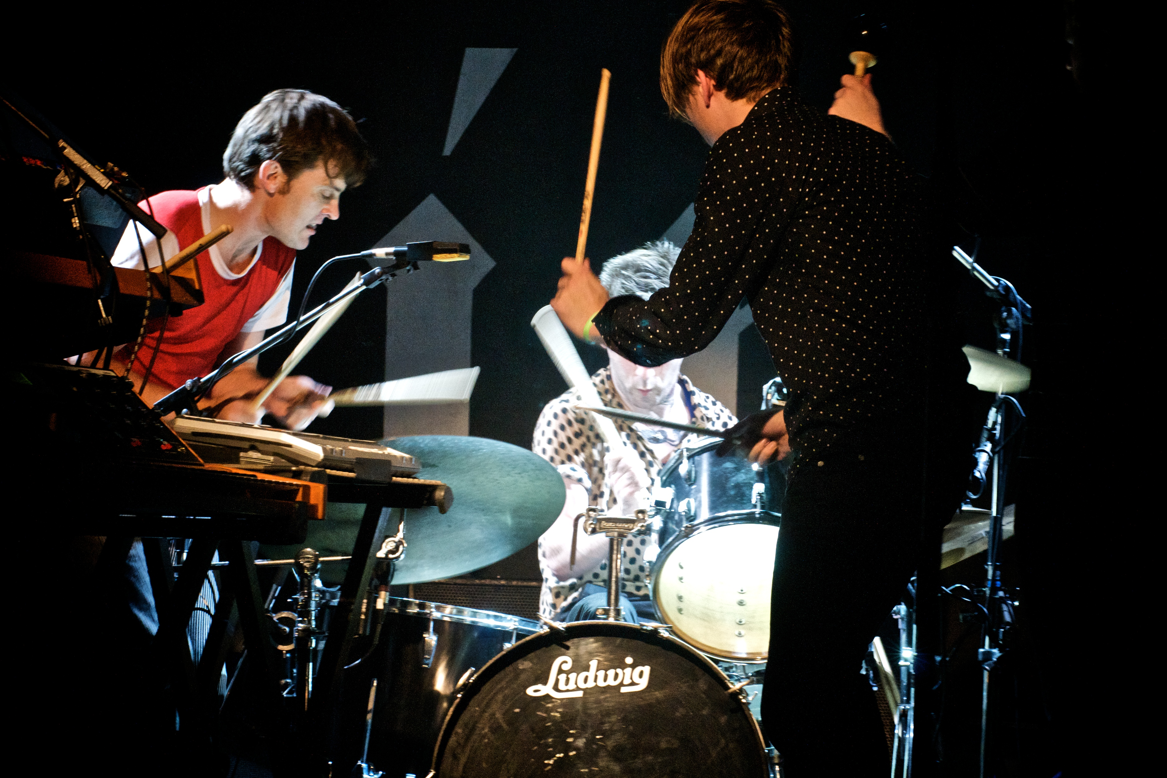 Franz Ferdinand in The Week, São Paulo, Brazil.